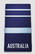 RAAF Air Mashal Rank Slide